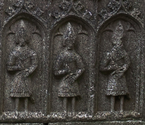 Cropped version of File:Roscommon St. Mary's Priory Choir Tomb 2014 08 28.jpg. The image shows the sculpted figure of a gallowglass.